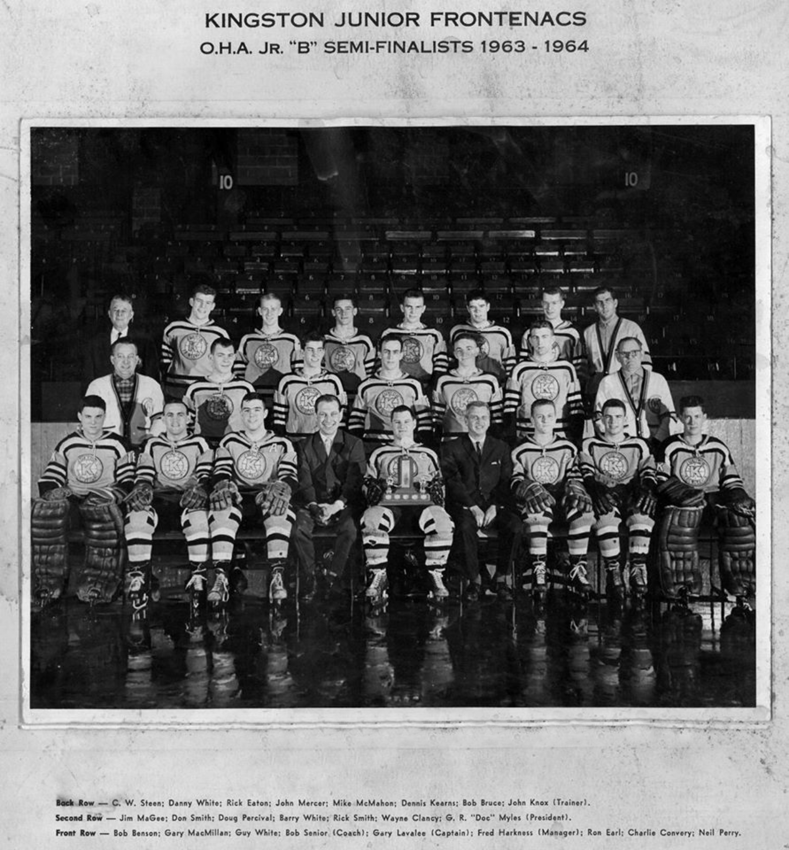 Team photo